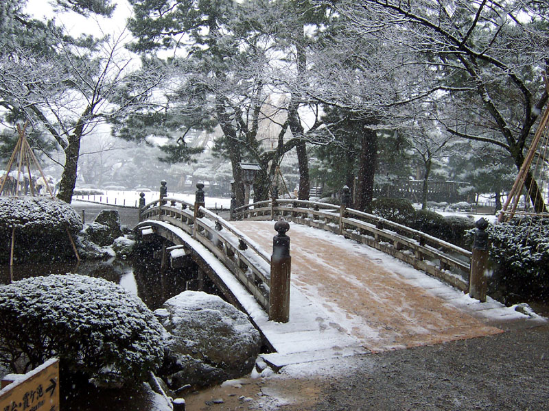 A bridge in Kenrokuen in the snow.